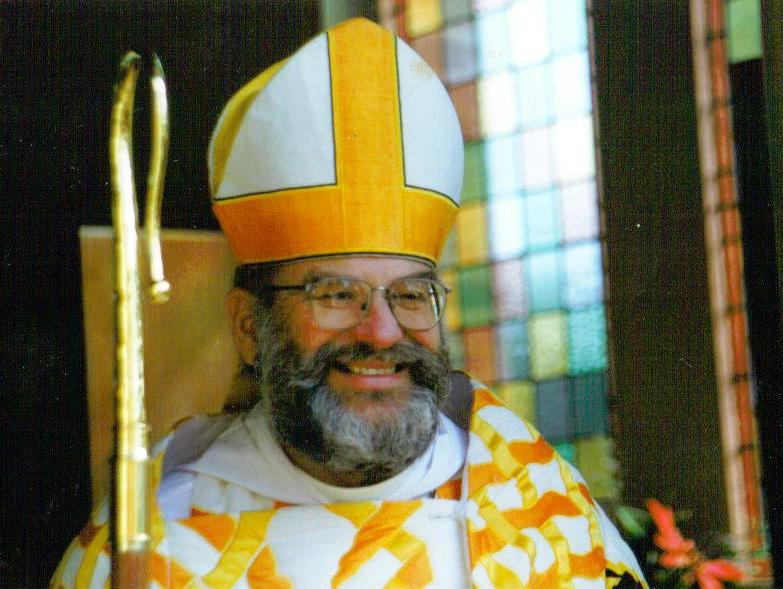 Archbishop Ian George Transfiguration Church 1995